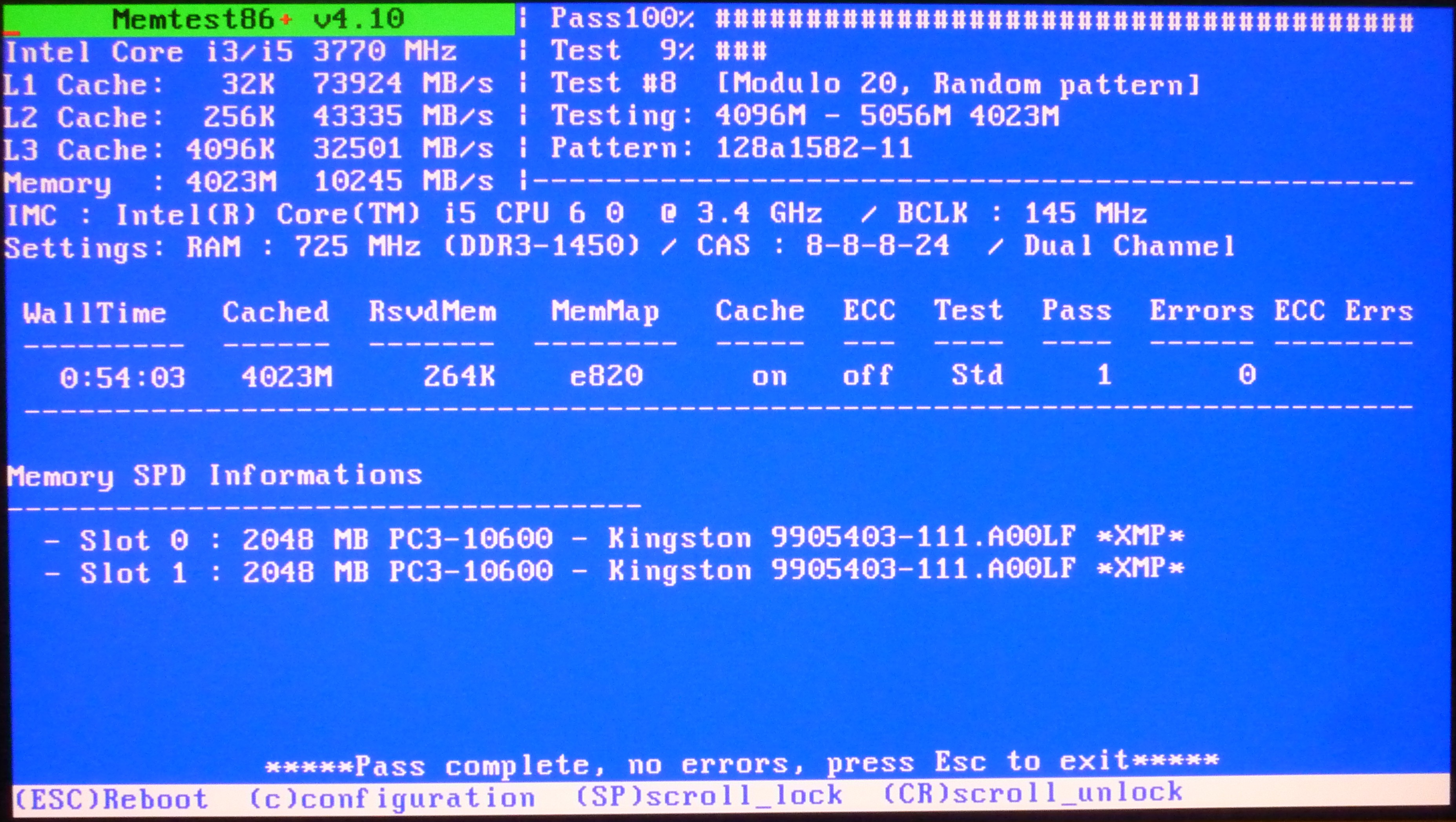 Screenshot of Memtest86+ v. 4.10 started via a live Ubuntu USB image. One round of tests has completed without errors, a second round is in progress. Various information about the memory, the CPU and its levels of cache are displayed